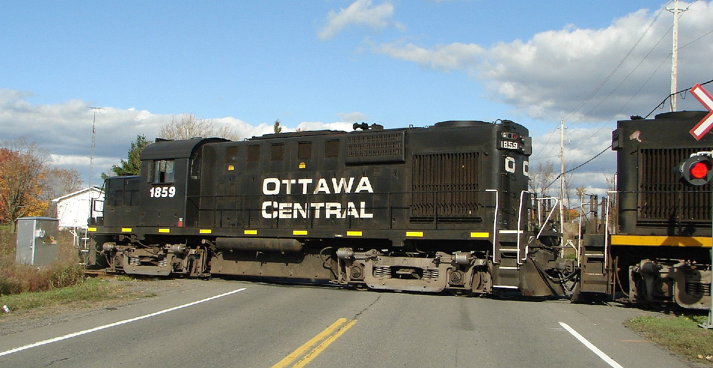 Ottawa Central Railway (OCRR) locomotive